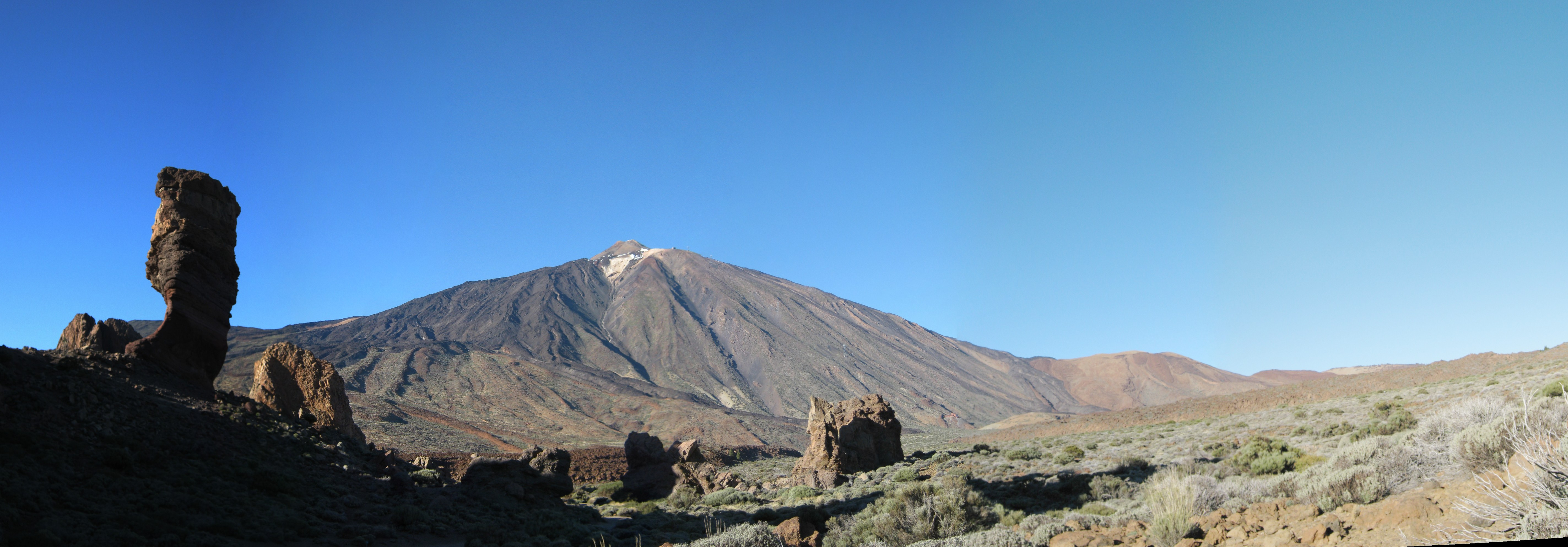 Panorama view from Los Roques to Pico del Teide